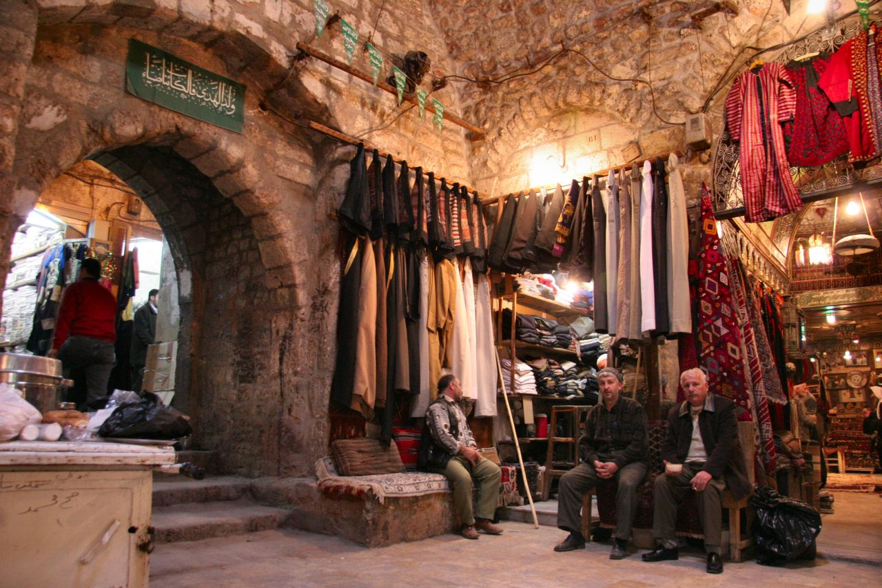 I took this picture myself with my own camera (Canons Digital 20D) in 2005, March 23rd. Location: Souq al-Hiraj سوق الحراج inside the souk of Aleppo, Syria. Further images on Aleppo: A collection of pictures made in 2003 about Aleppo. A picture gallery about a 2005 trip in Aleppo. Many more commented images of Syria are available on my web site. You find them by going directly to a Syrian gallery in 2005 or this other Syrian gallery in 2003. Do not hesitate to rate the pictures or leave comments as it helps me knowing where to further invest my time.